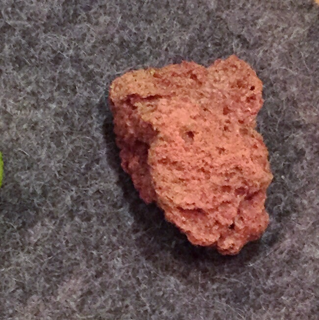 Agern, New York